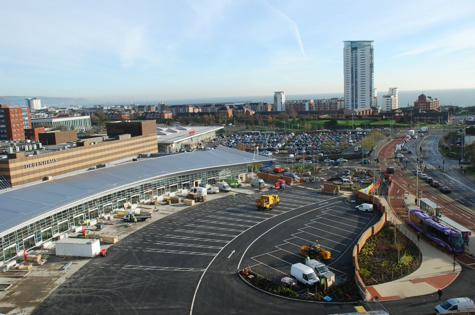 New bus station